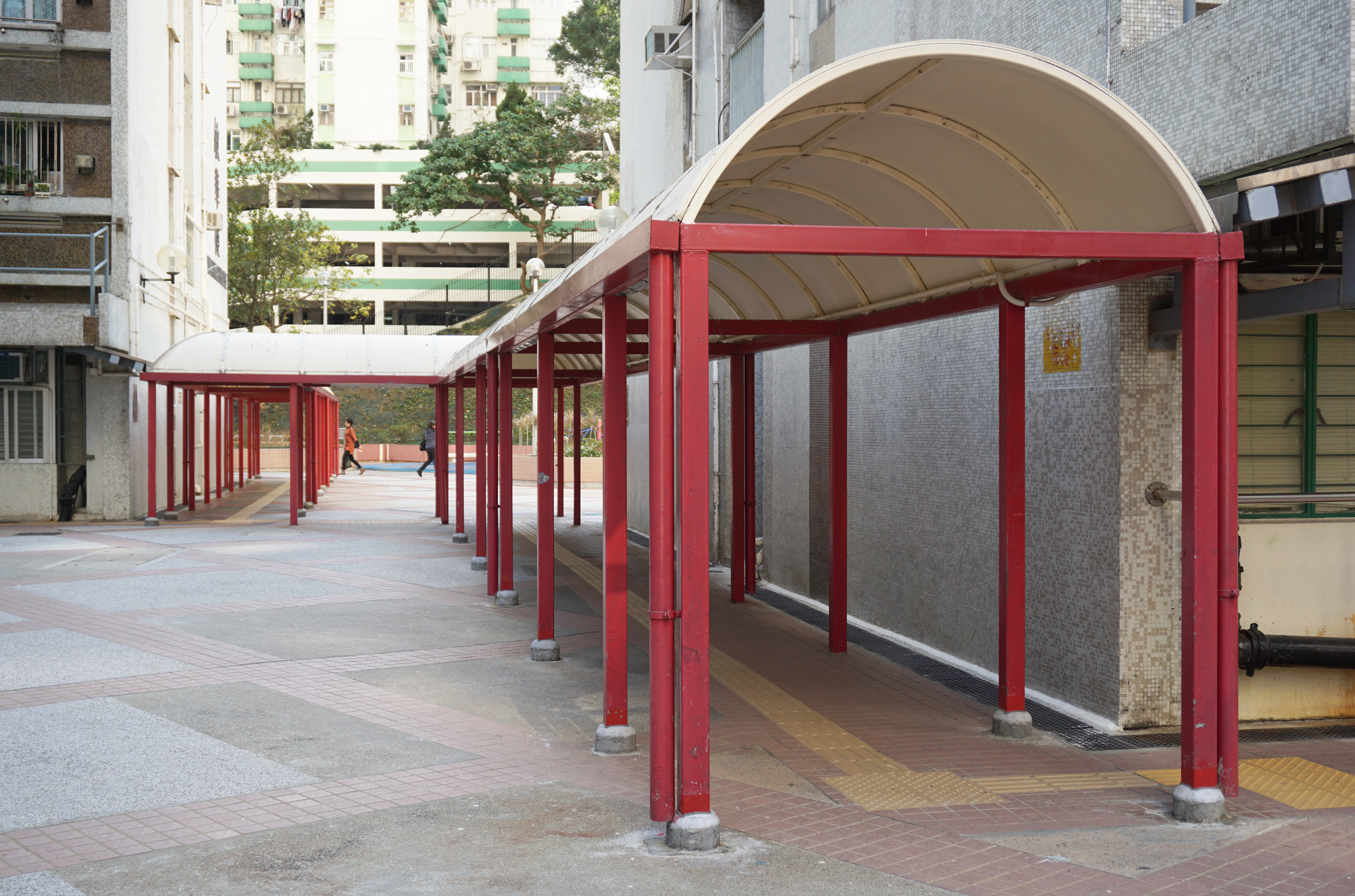 Lok Wah South Estate in Nagu Tau Kok, Hong Kong.